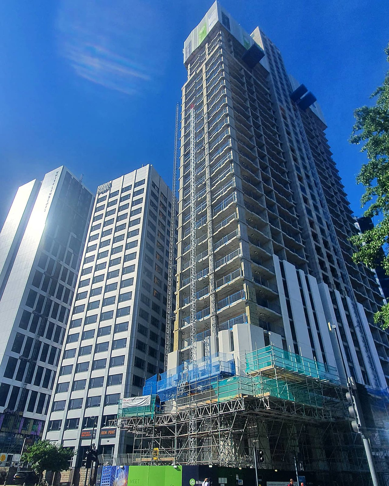 Altus House under construction in Leeds, West Yorkshire. May 2020